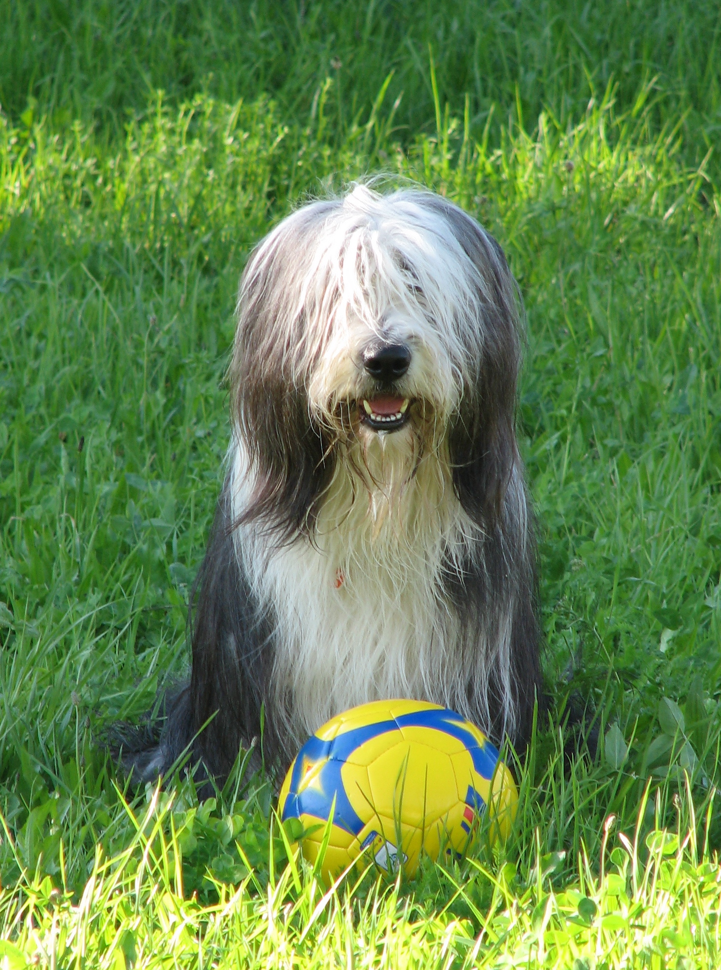 Portrait of our Bearded Collie 'Alois' sometimes called Buberle which is a German malapropism of the German word for 'boy' that is used in the Bavarian part of Germany